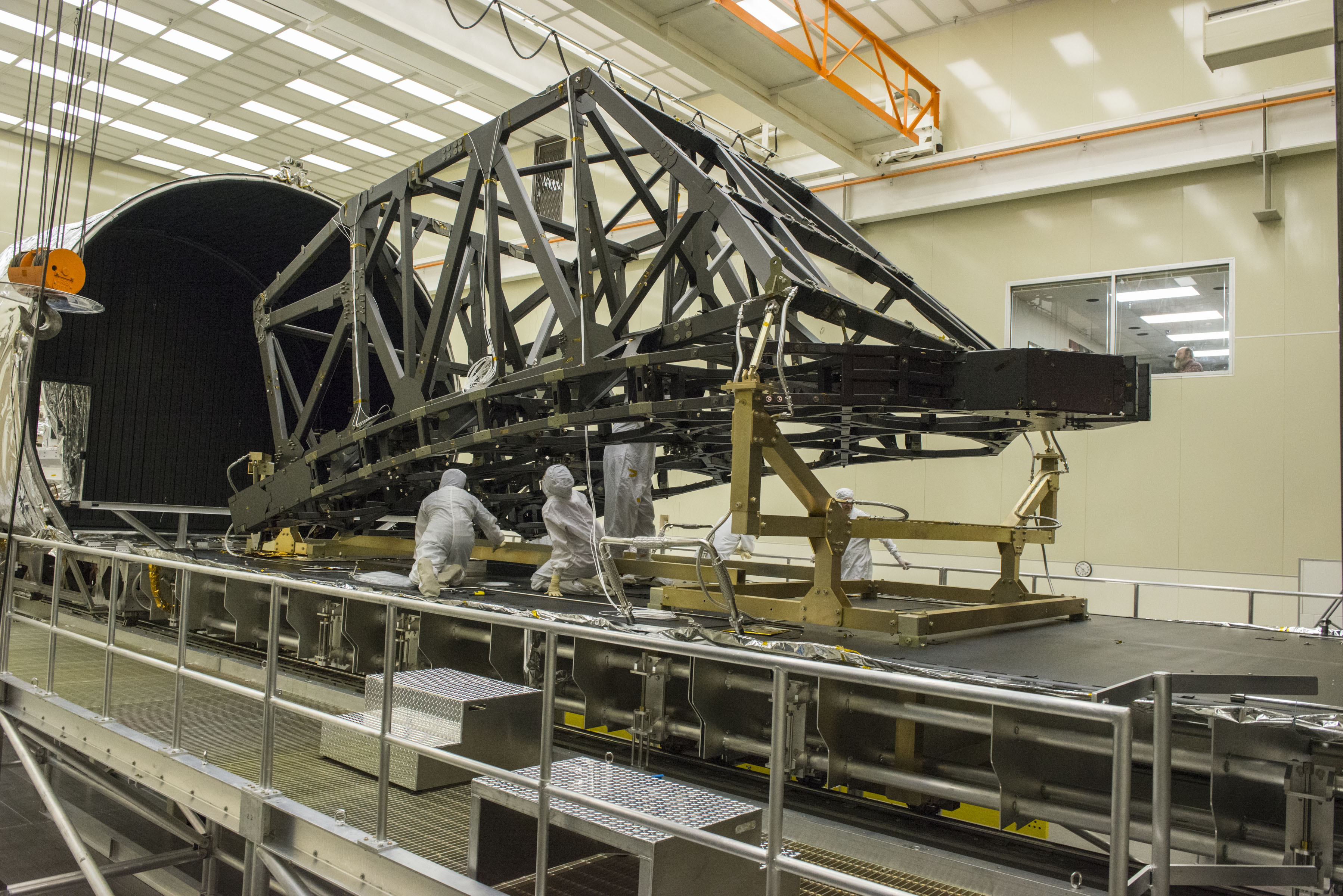 Engineers at Marshall Space Flight center in Huntsville, AL remove the James Webb Space Telescope’s backplane from the cryogenic test chamber. During the recent testing, the backplane went through several cycles from room temperature to minus 400 degrees Fahrenheit. The X-ray & Cryogenic Facility at Marshall is the world’s largest X-ray telescope test facility and offers a unique, cryogenic, clean-room optical test environment. Cryogenic testing of the backplane took place in a 7,600-cubic-foot, helium-cooled vacuum chamber, chilling the Webb support structure from room temperature to simulate the frigid atmosphere of space. The backplane holds the 18 beryllium mirrors nearly motionless while the telescope peers into deep space.